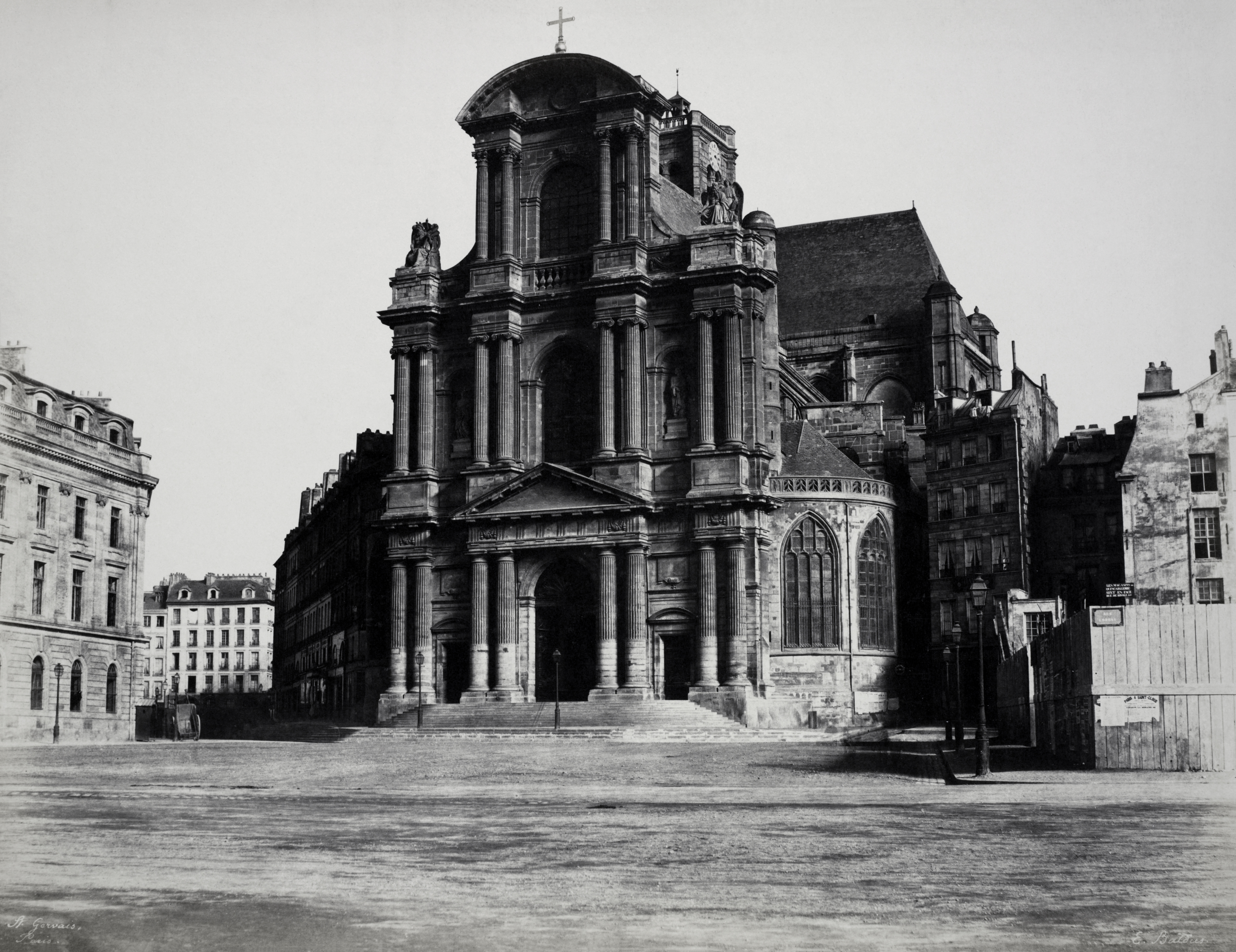 The Church of Saint-Gervais-et-Saint-Protais is located in the 4th arrondissement of Paris, on Place Saint-Gervais in the Marais district, east of the Hôtel de Ville.